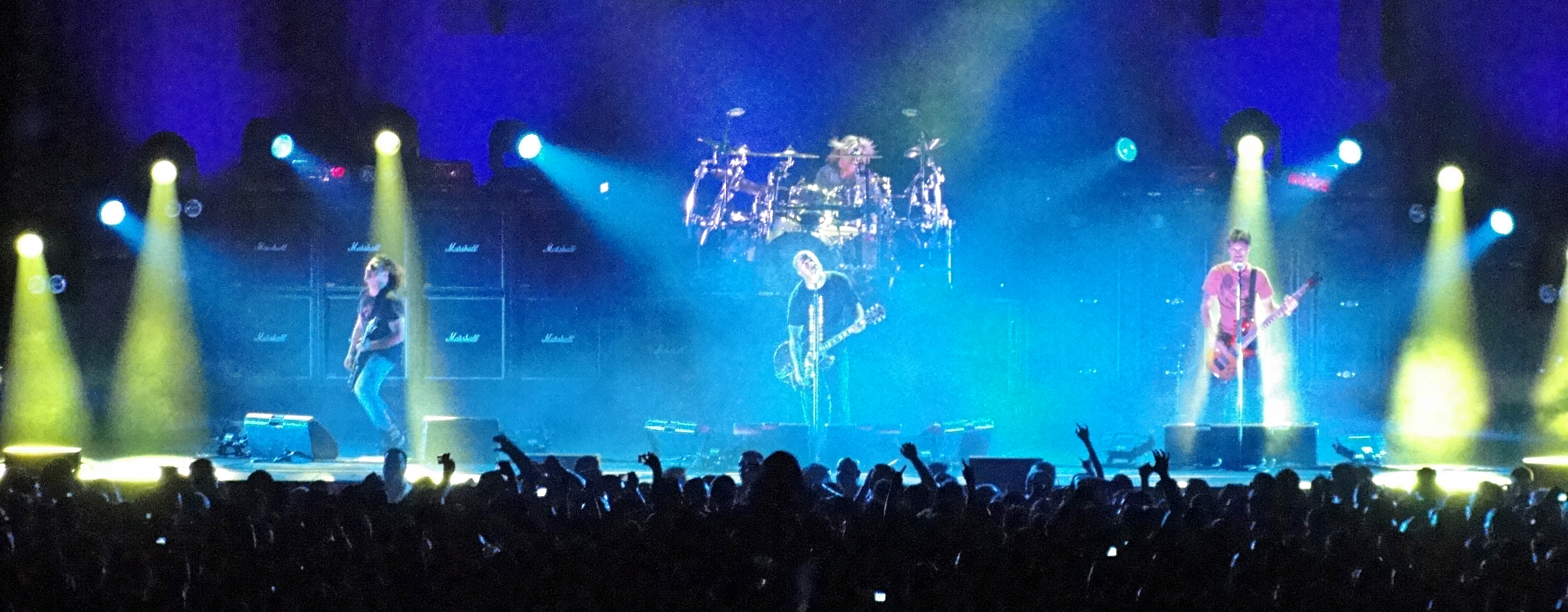 Staind live at the LEC in Laredo, Texas